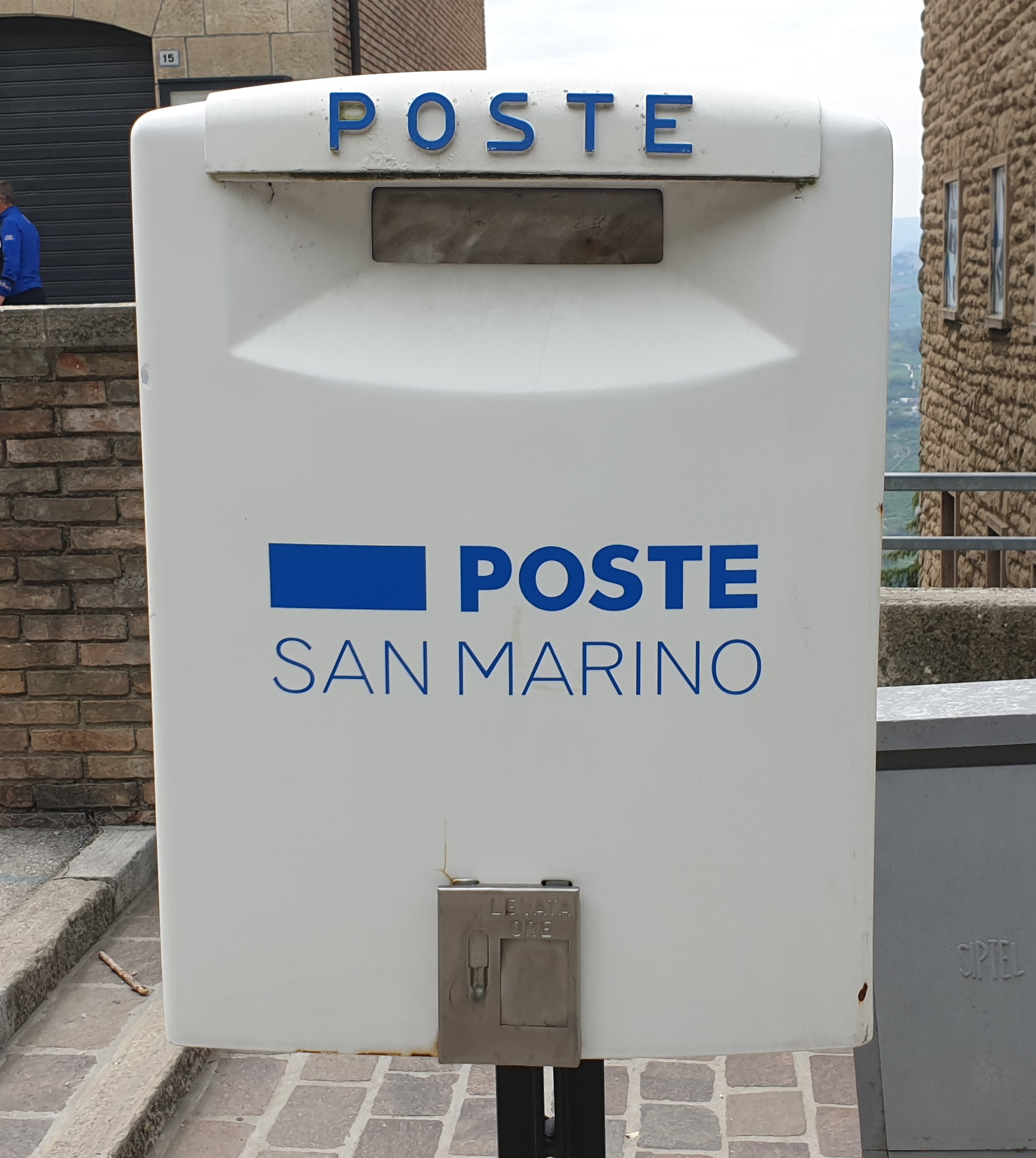 Public mailbox at the old town quarter in the City of San Marino.